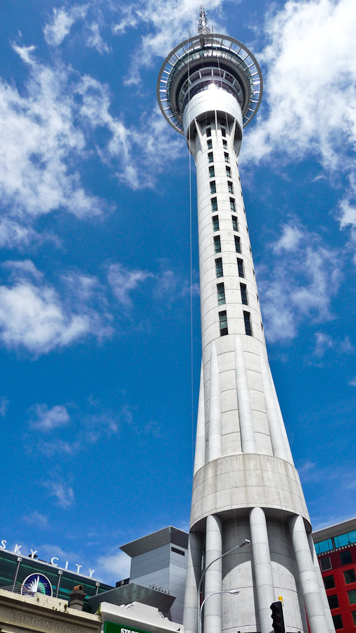 Auckland CBD with Skytower